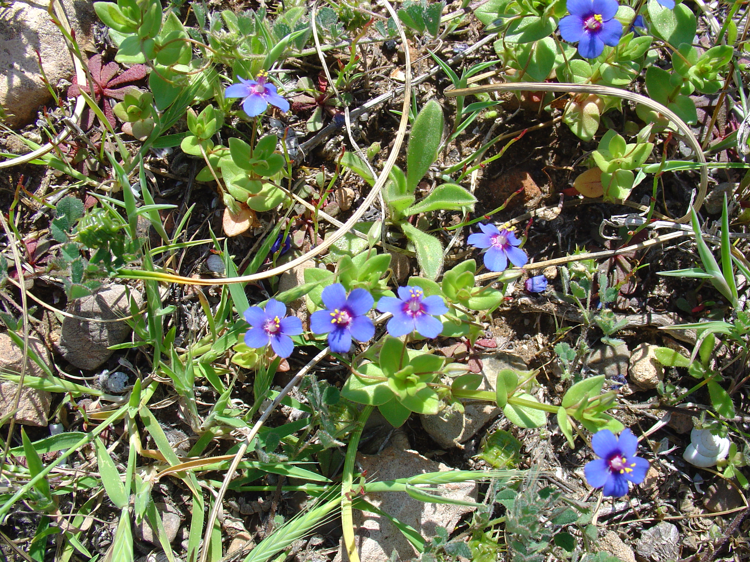 Anagallis arvensis from Cabo de Palos, Murcia, Spain